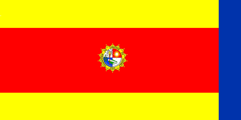 Source: Drawn by User:Richard Relucio This image shows a flag, a coat of arms, a seal or some other official insignia. The use of such symbols is restricted in many countries. These restrictions are independent of the copyright status. This image of simple geometry is ineligible for copyright and therefore in the public domain, because it consists entirely of information that is common property and contains no original authorship. You may select the license of your choice.